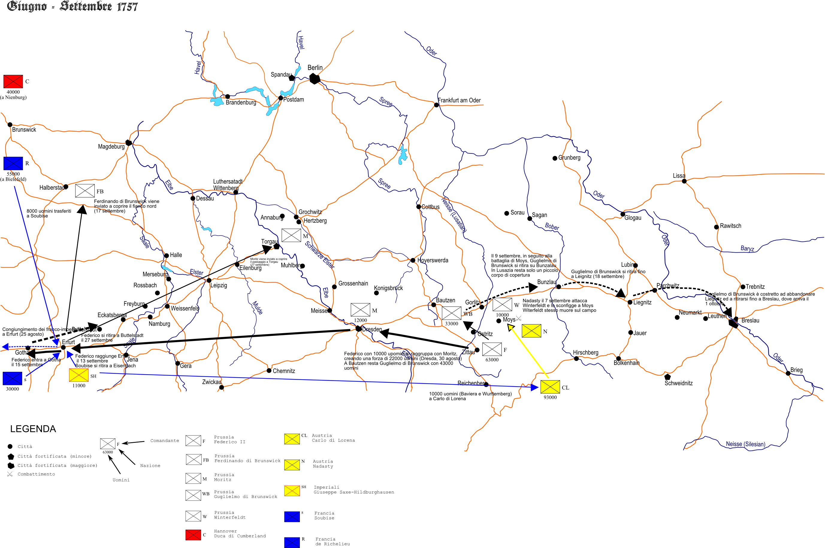 Campagin of 1757 in the Seven Years War, from June (dopo la battaglia di Kolin) to September